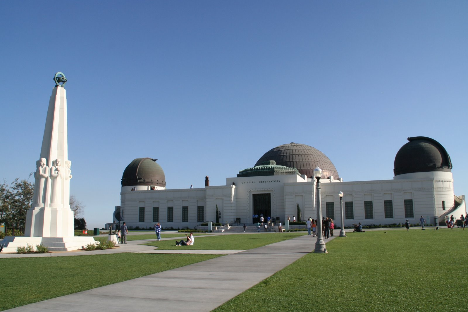 Griffith Observatory